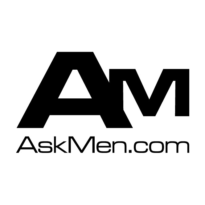 Logo